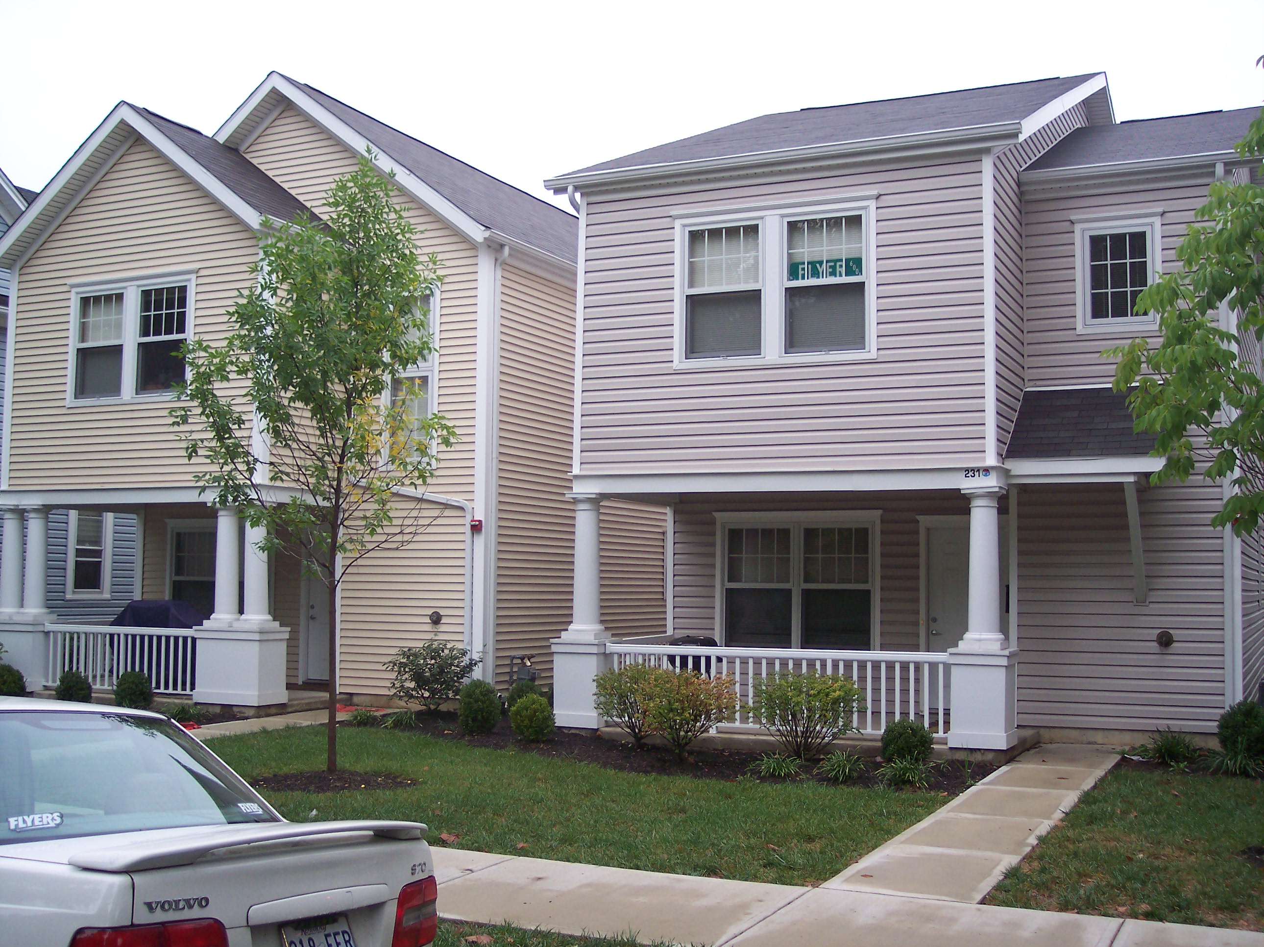 227 and 231 Irving Avenue, two of the new five-person houses in the University of Dayton Ghetto in Dayton, Ohio.